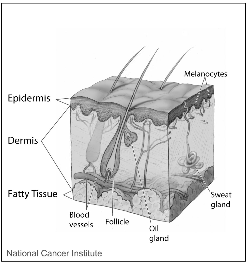 Title Skin (Layers, Glands, Vessels) Description The layers of skin (epidermis, dermis, and fatty tissue) and associated glands and vessels (blood vessels, follicle, oil gland, sweat gland, and melanocytes). Topics/Categories Anatomy -- Skin Type B&W, Medical Illustration Source National Cancer Institute